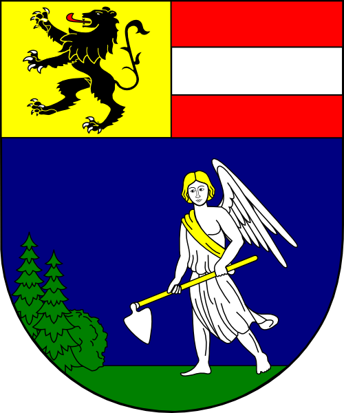 oat of arms (shield only) of Augustin Johannes Joseph Gruber, bishop of Ljubljana, Slovenia (1816 - 1823), archbishop of Salzburg, Austria (1823 - 1825).Version for Salzburg based on SPATZENEGGER, Hans: Die Wappen der Salzburger Erzbischöfe seit de Sekularisation, In: Mitteilungen der Gesellschaft für Salzburger Landeskunde, 1982, p. 406.